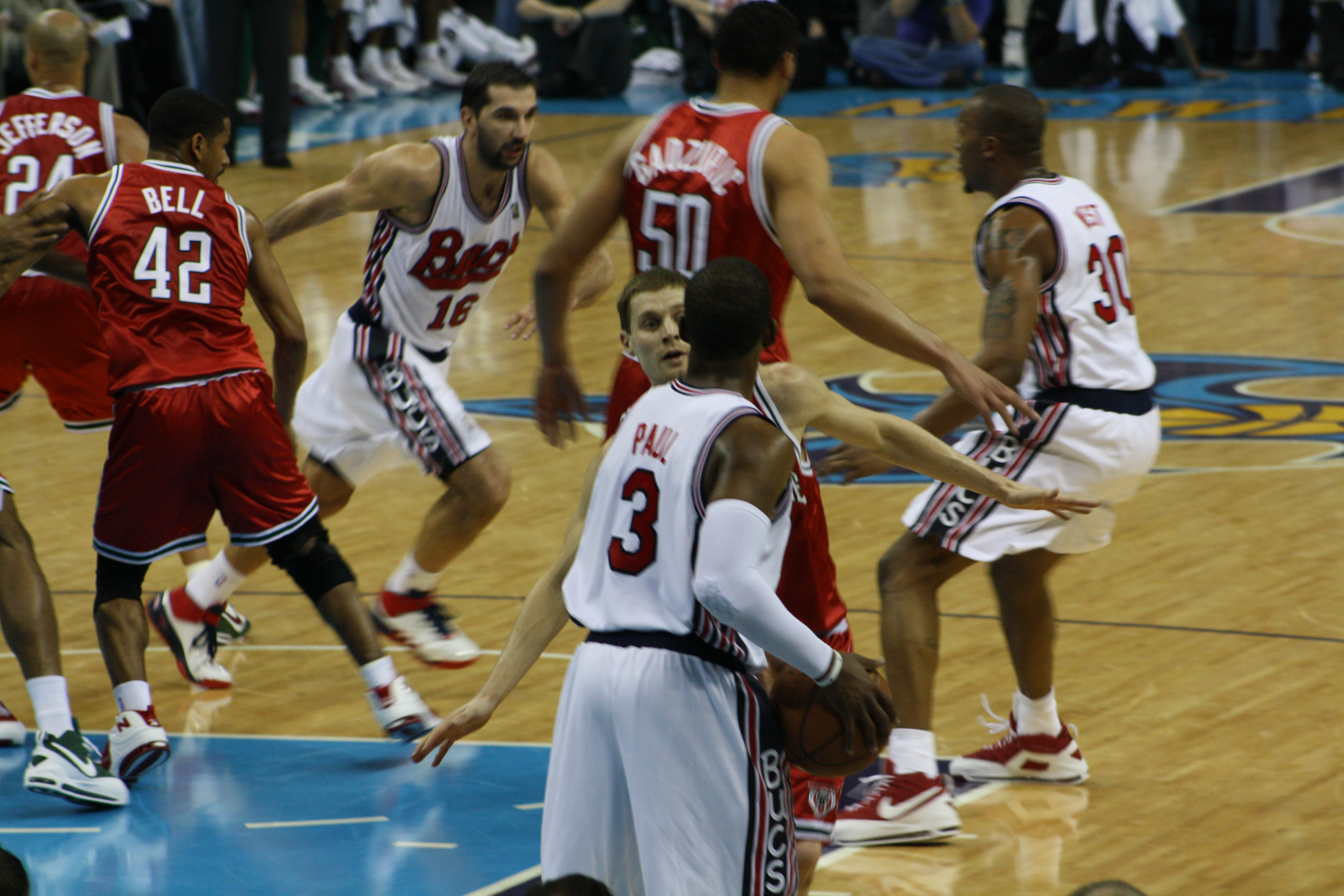 Chris Paul of the New Orleans Hornets gets ready to throw an inbounds pass.